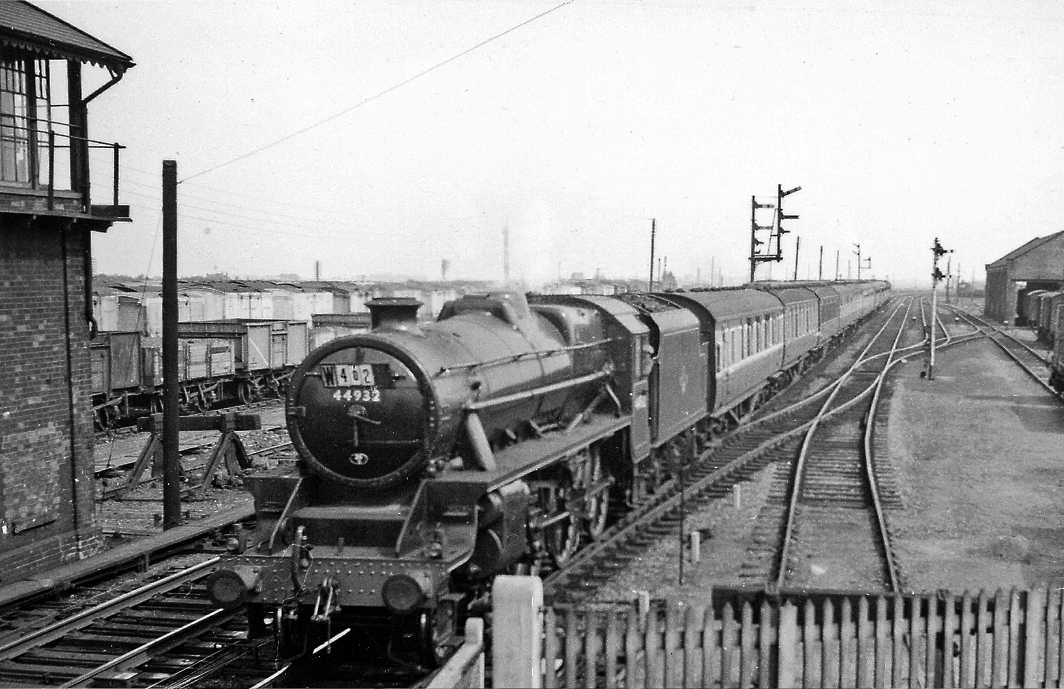 Clacton-on-Sea - Birmingham New Street express entering March. View eastward, towards Ely: ex-GE London, Cambridge etc., Ely - March, Peterborough and Spalding etc. main lines. The curious Summer Saturdays 11.10 from Clacton had come via Colchester, Ipswich, Bury St Edmunds and Ely and would proceed via Peterborough East and Rugby to Birmingham. Its motive power this day was very strange - for details see TL4197 : March station, with a Stanier 'Black 5' - unusual in 1958 - on eastbound parcels train.